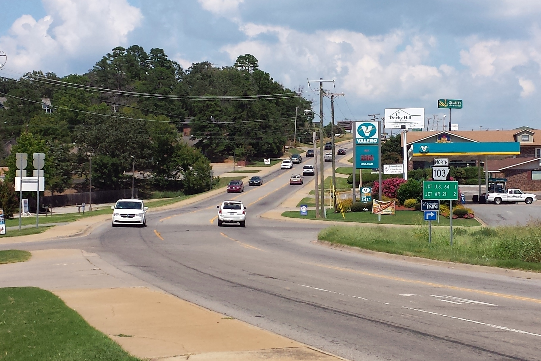 Highway 103 in Clarksville, AR